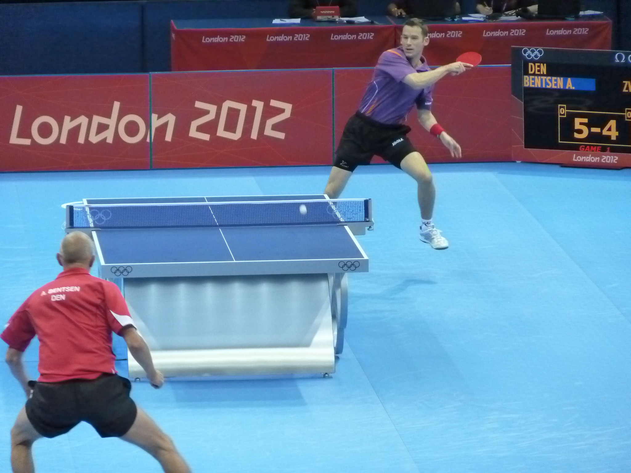 Allan Bentsen (Denmark) v Daniel Zwickl (Hungary), 1st round of men's table tennis, ExCel arena, London Olympics, 28 July 2012